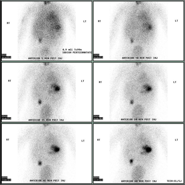 Technetium-99m (99mTc) pertechnetate "Meckel's Scan" with radiotracer activity (black) becoming more intense over time (from top left to bottom right) at the stomach and right lower quadrant, indicating a Meckel's diverticum with gastric mucosa.